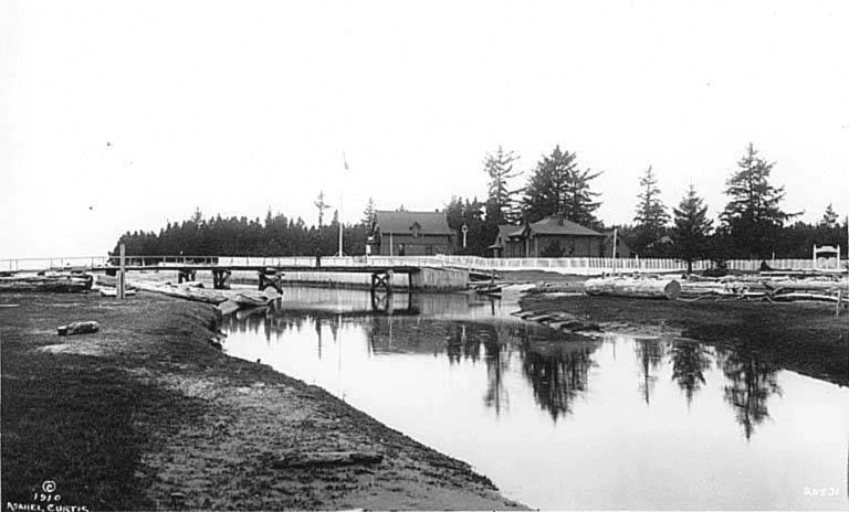 Subjects (LCTGM): Lifesaving stations--Washington (State)--Willapa Bay Subjects (LCSH): United States. Coast Guard.